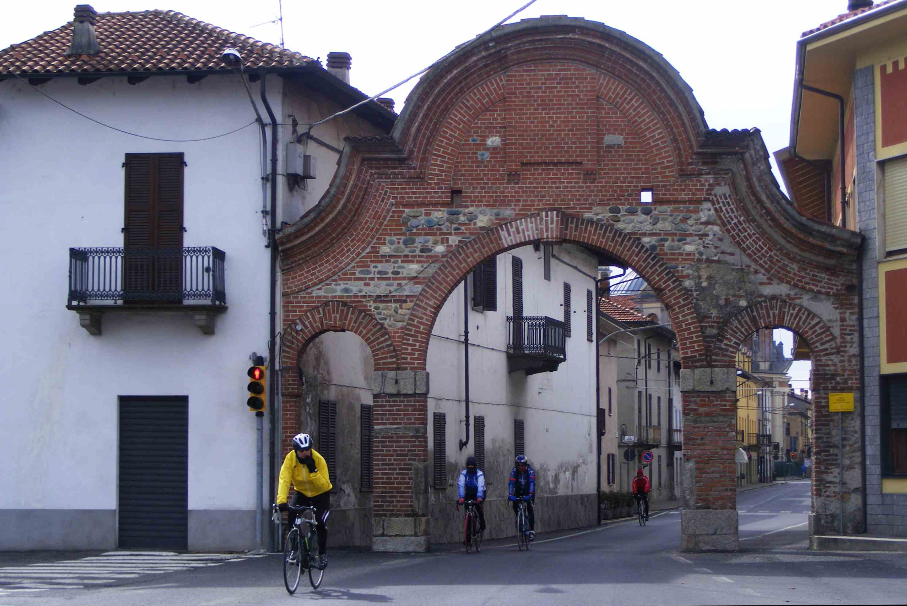 Borgo d'Ale (VC, Italy): entrance arch